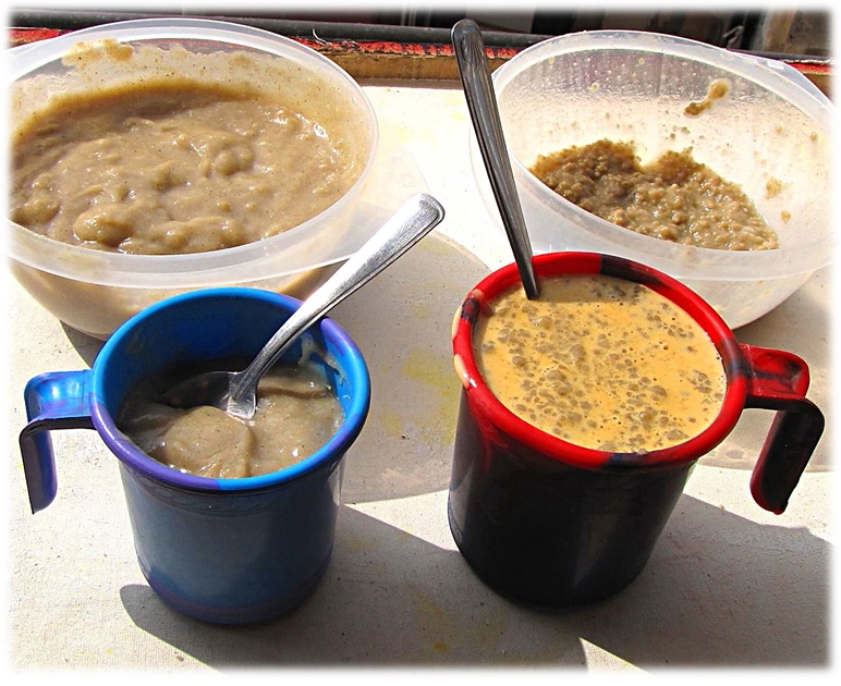 Same basic boiling process, one using soungouf (millet flour in Wolof), the other, fondé using rolled pellets of millet flour or araw/arraw (Wolof language.) Smooth Rouy, usually for babies has only added sugar. Butter and sweetened condensed milk are often added to fondé after cooking. Note: Millet recipes use pellets made from millet flour (soungouf in Wolof - names vary between languages), not raw millet grains as millet seeds have a hard and inedible hull that must be removed by hand or machine milling before the millet can be used. Served in inexpensive bright plastic cups manufactured in Senegal. This is an image of food from Senegal